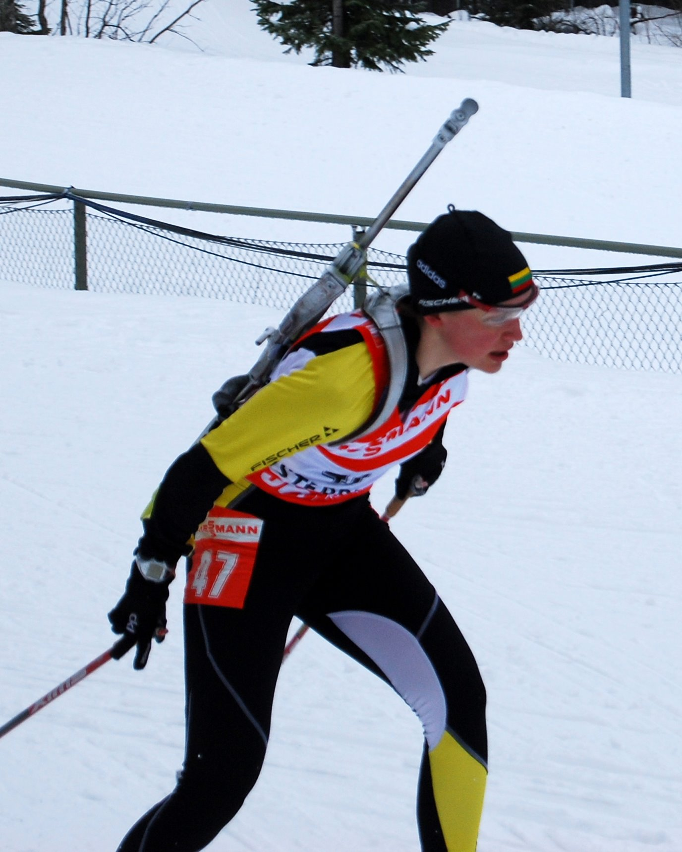 Lithuanian biathlete Diana Rasimoviciute during the World Championships in Östersund 2008.